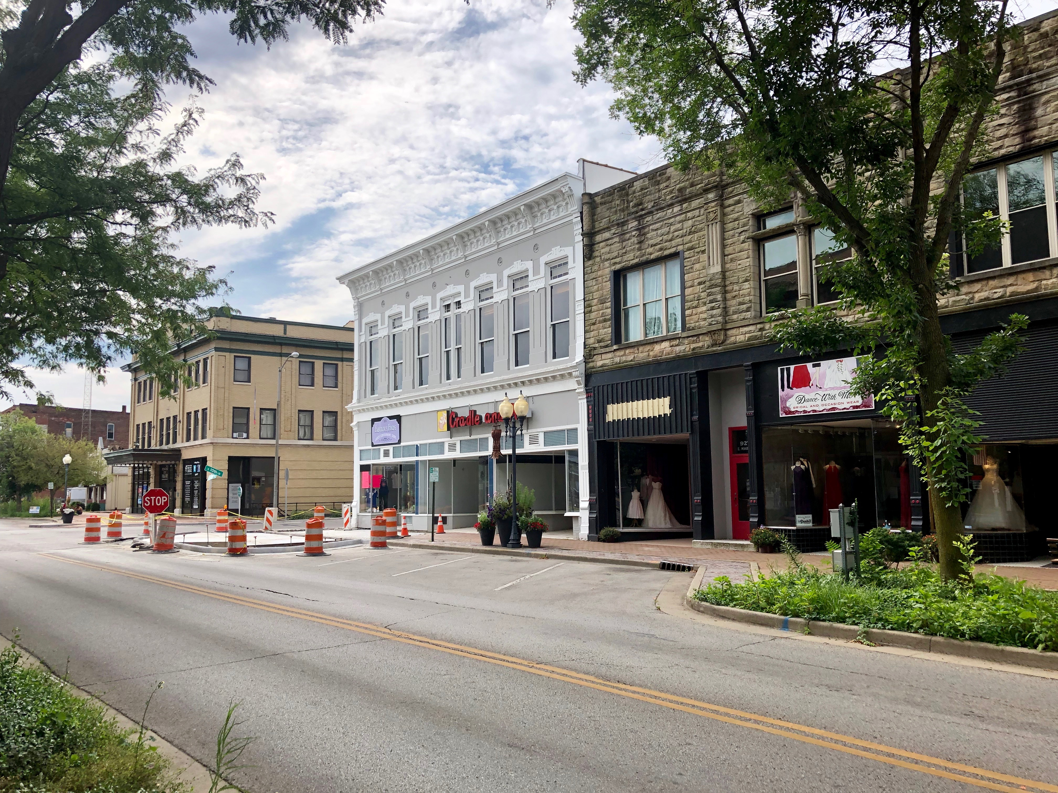 Main Street, Richmond, IN